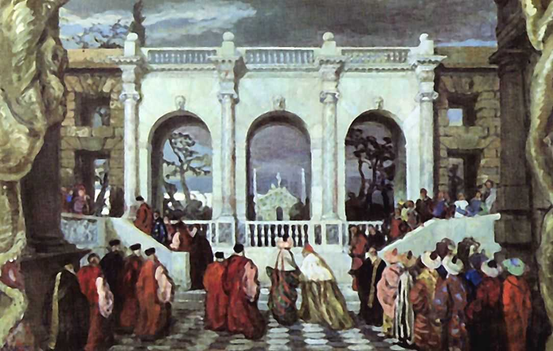 Venice festival in the 16th century. Set design for an unrealized production of "Games" Debussy. 1912